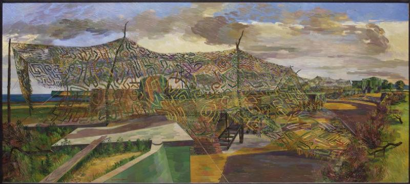 Coast Defence Battery - September 1940 image: A coastal heavy artillery emplacement, probably at Grain Fort, which defended the Rivers Thames and Medway. The emplacement is covered by camouflage netting overlooking the sea, which is visible on the left. The large calibre gun, in the centre left, is also camouflaged with paint in shades of green, brown and yellow. The emplacement is constructed from concrete. All is set against a cloudy blue sky.